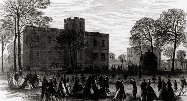 Tower Building in the early 1800s